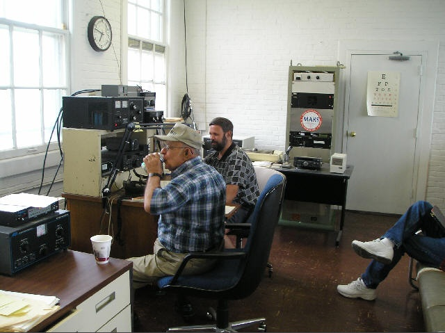 Navy-Marine Corps MARS station, NAV-4, operating during Armed Forces Day Picture taken by Navy Marine Corps MARS operators.